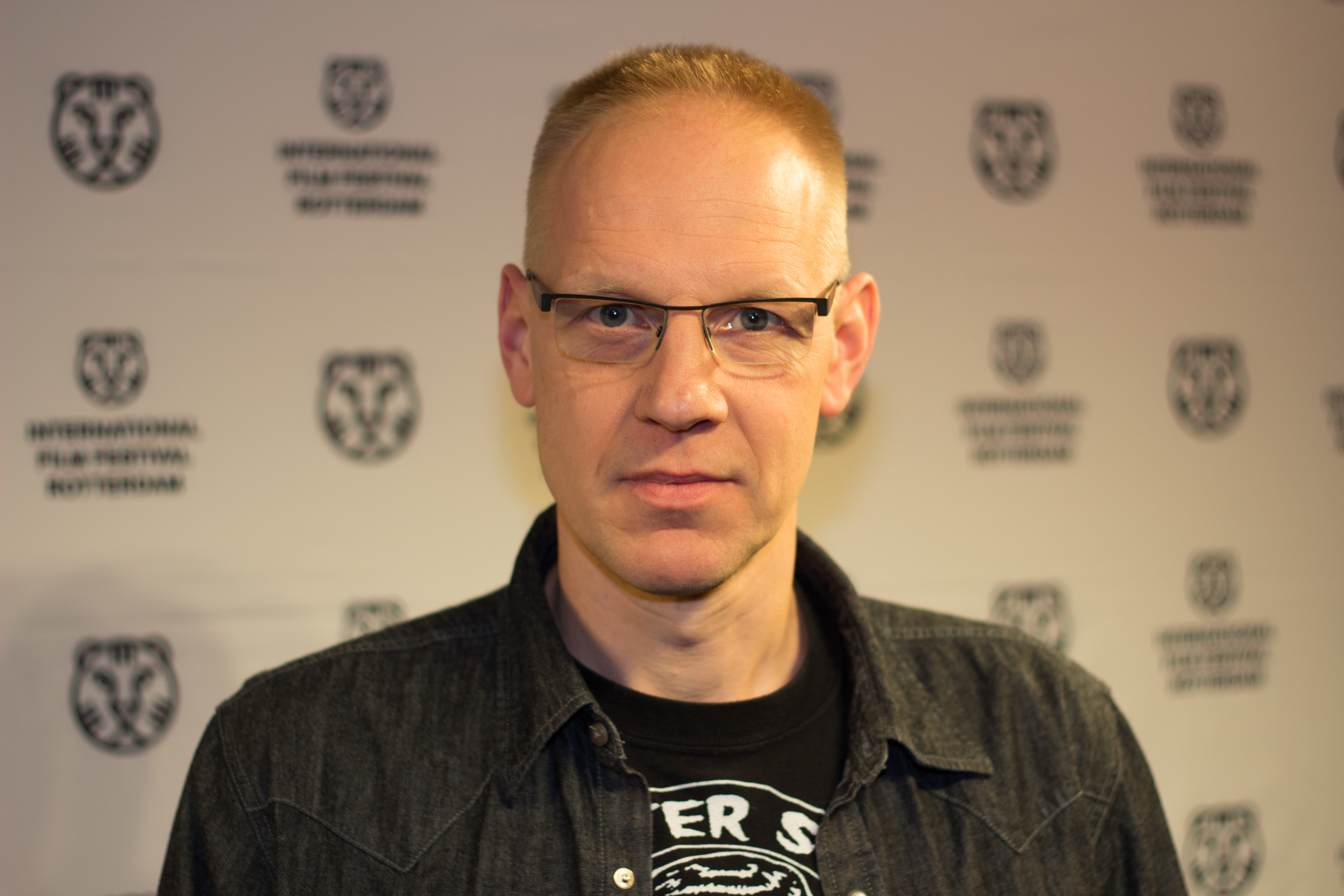 German Angst cast & crew (and friends) DirectorsJörg Buttgereit, Michal Kosakowski, Andreas MarschallProduction country & yearGermany - 2015 Length110 min PremiereWorld premiereProducerMichal Kosakowski, Andrea StaerkeScreen playAnna Bonasso, Jörg Buttgereit, Andreas Marschall, Goran Mimica WithMilton Welsh, Daniel Faust, Denis Lyons, Annika Strauss, Matthan Harris, Andreas Pape, Desiree Giorgetti CameraSven Jakob EditorMichal Kosakowski, Andreas Marschall Production designJörg Möhring Sound designDieter Hebben, Lukas Lücke MediumDCP Website